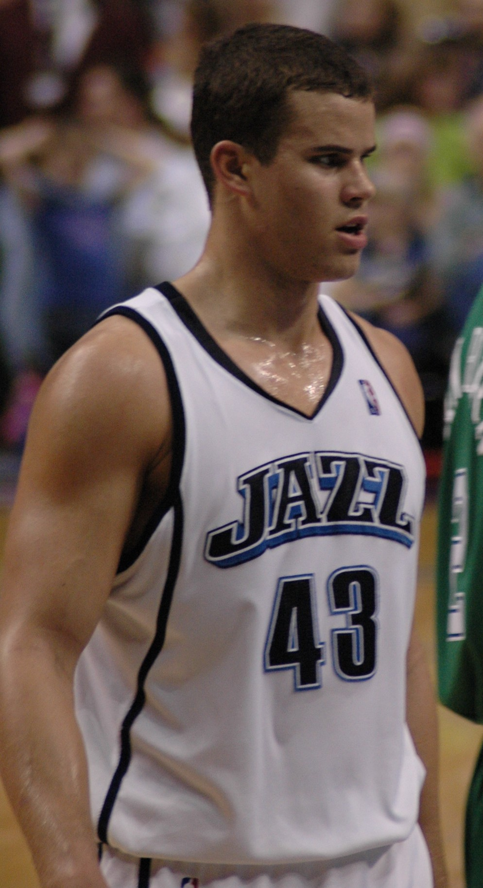 Kris Humphries playing for the Jazz against the Mavericks...his current team!